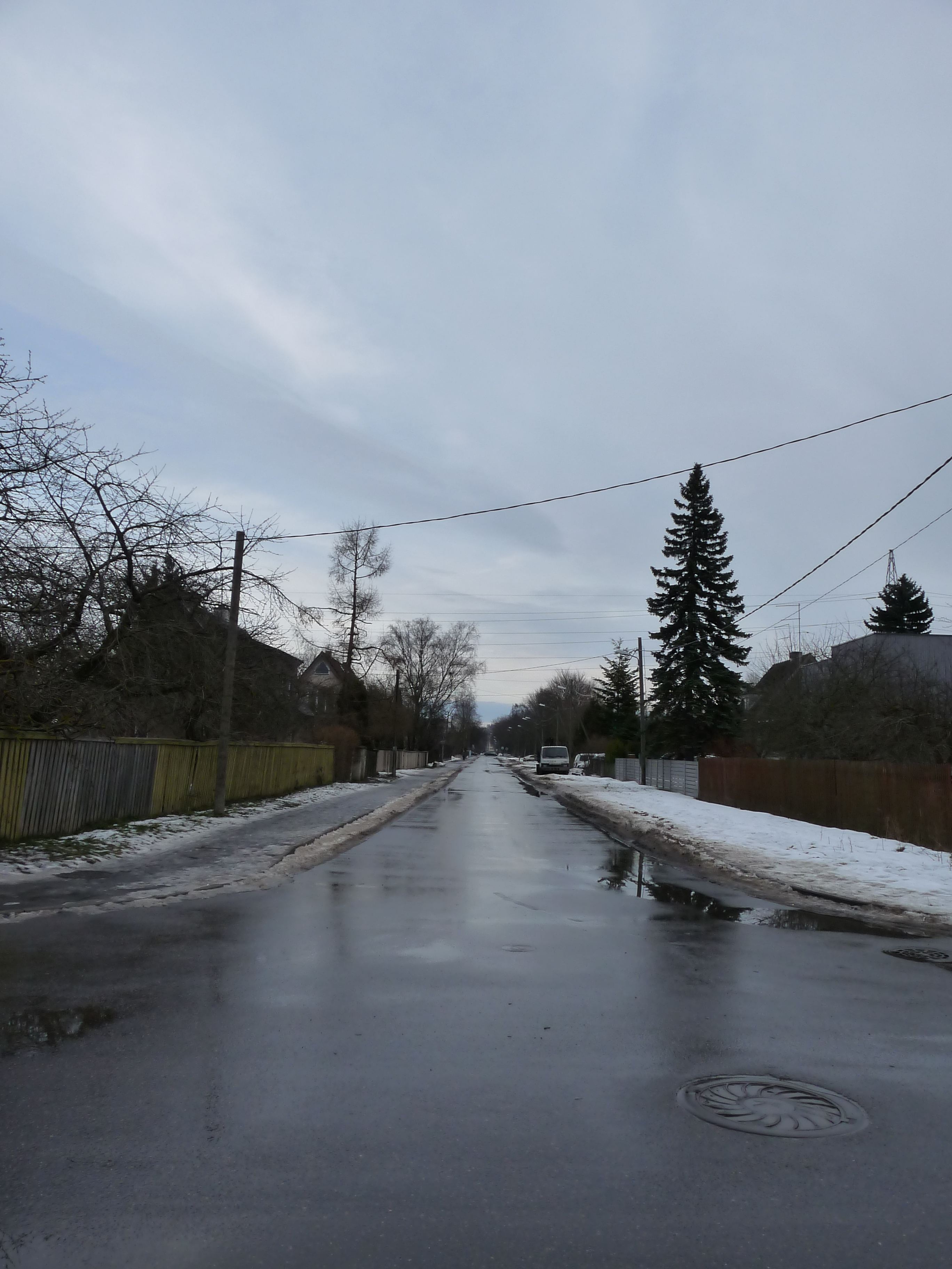 Tihase street in Tallinn, Estonia